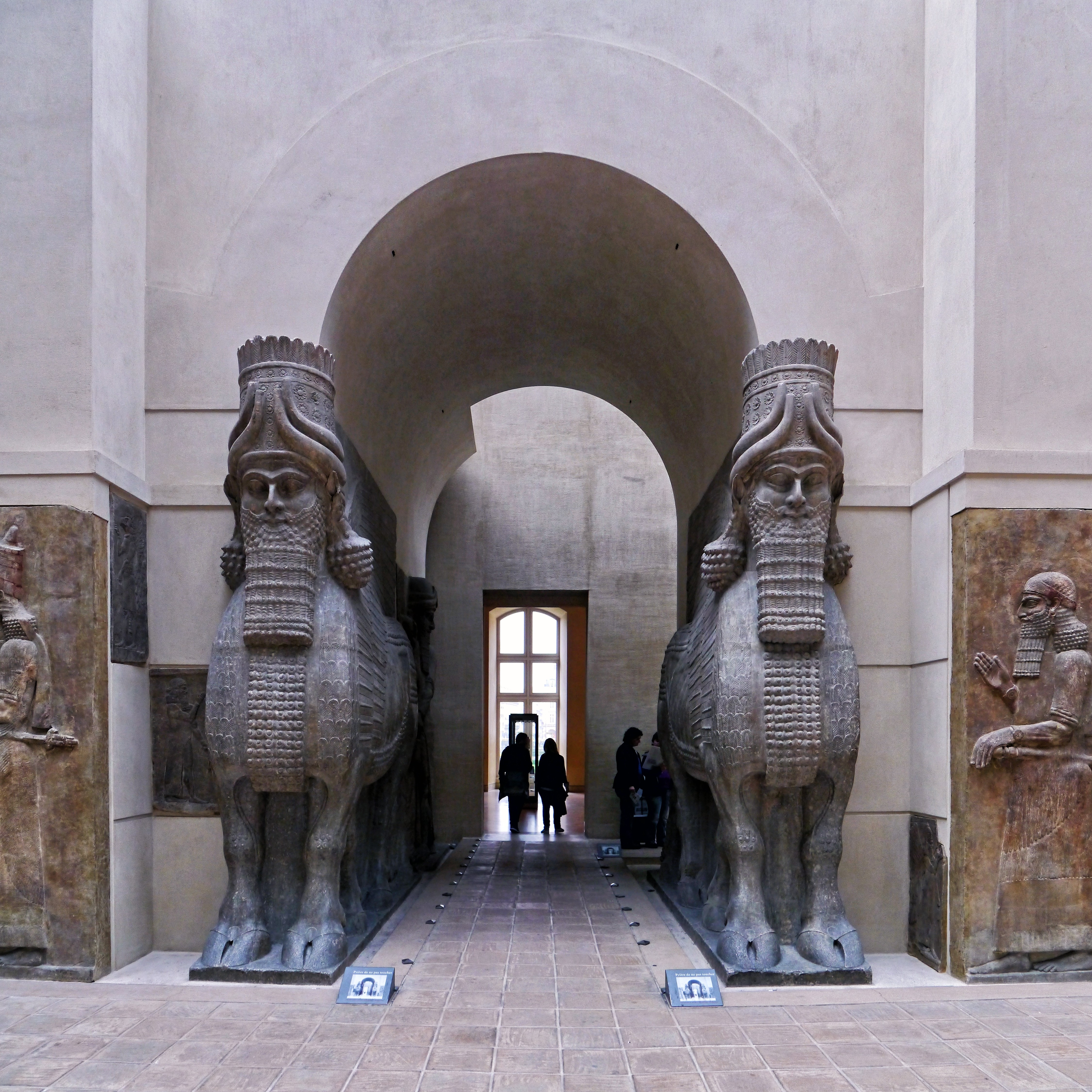 Human-headed winged bulls guarding a door in Dur-Sharrukin.